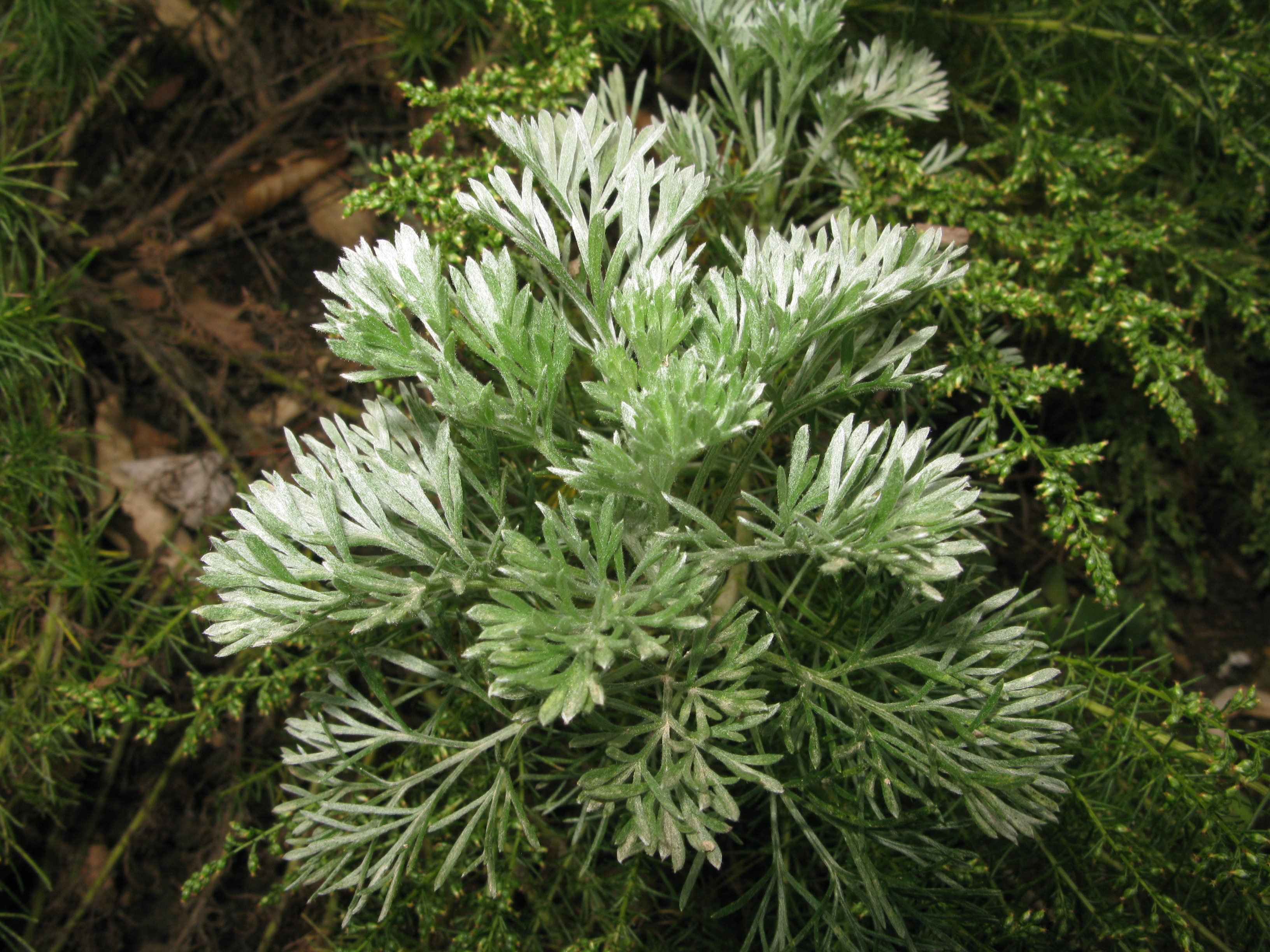 Artemisia capillaris, Aizu Matsudaira's Royal Garden, Aizuwakamatsu city, Fukushima pref., Japan